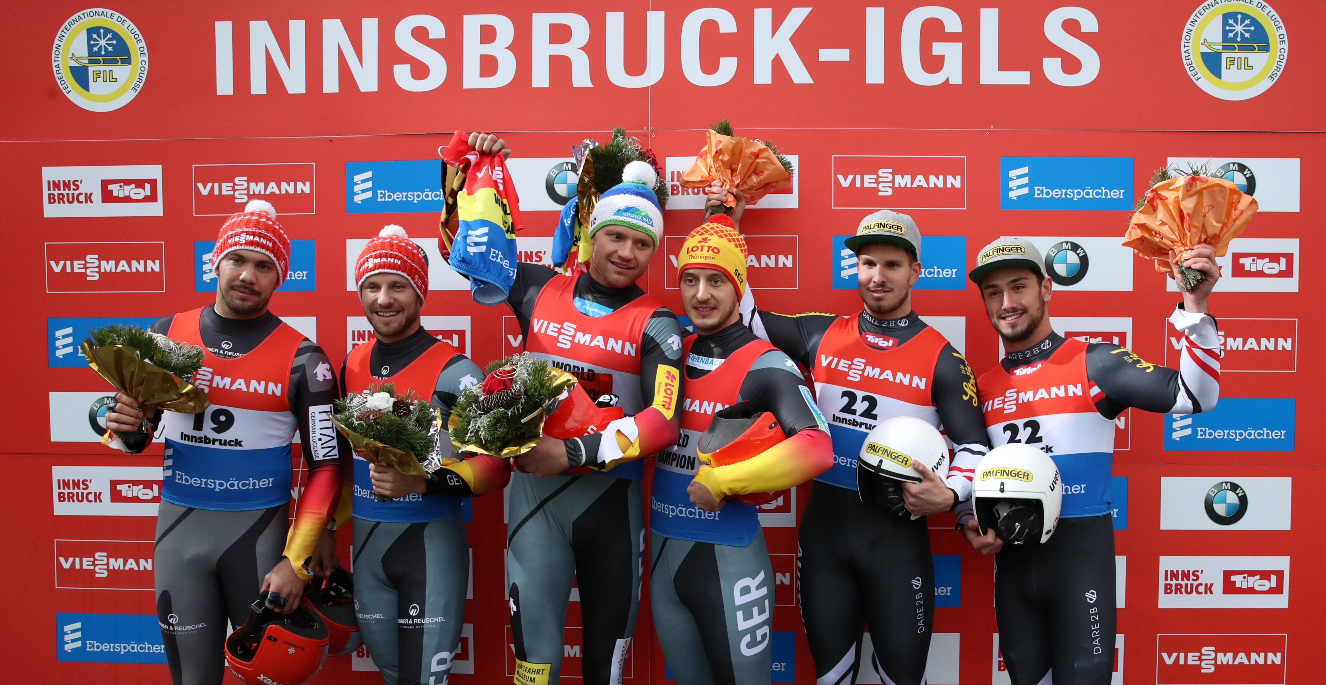 Doubles World Cup race at the 2019/20 Luge World Cup in Innsbruck-Igls